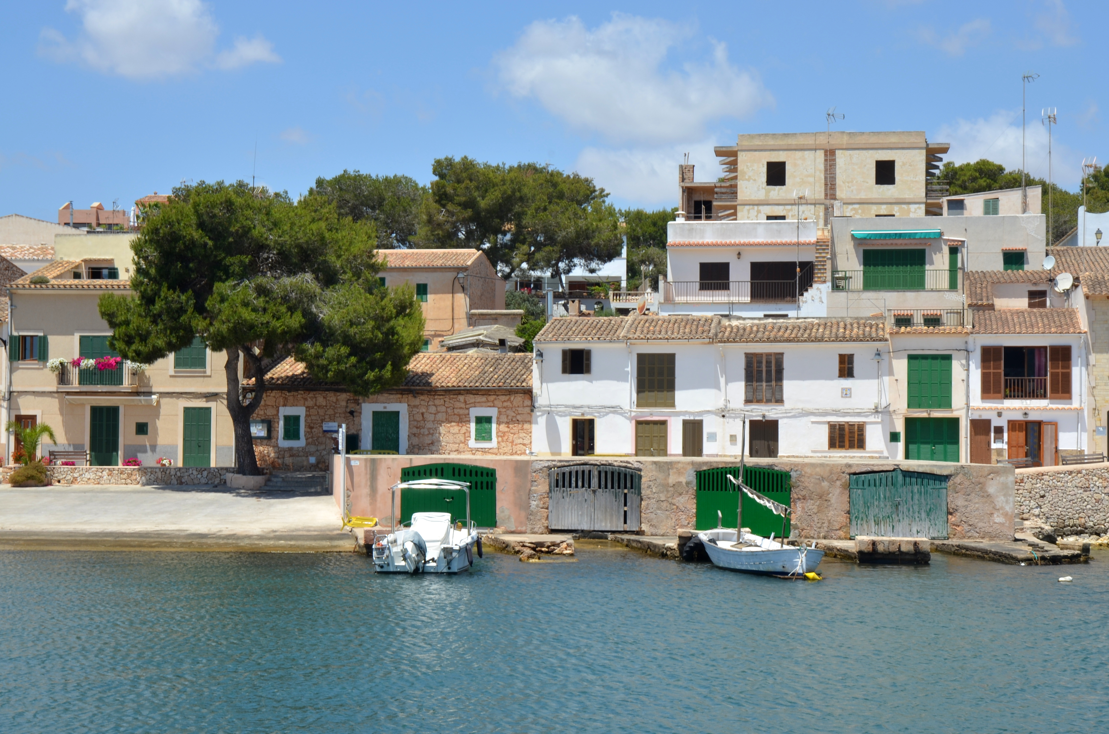 Mallorca